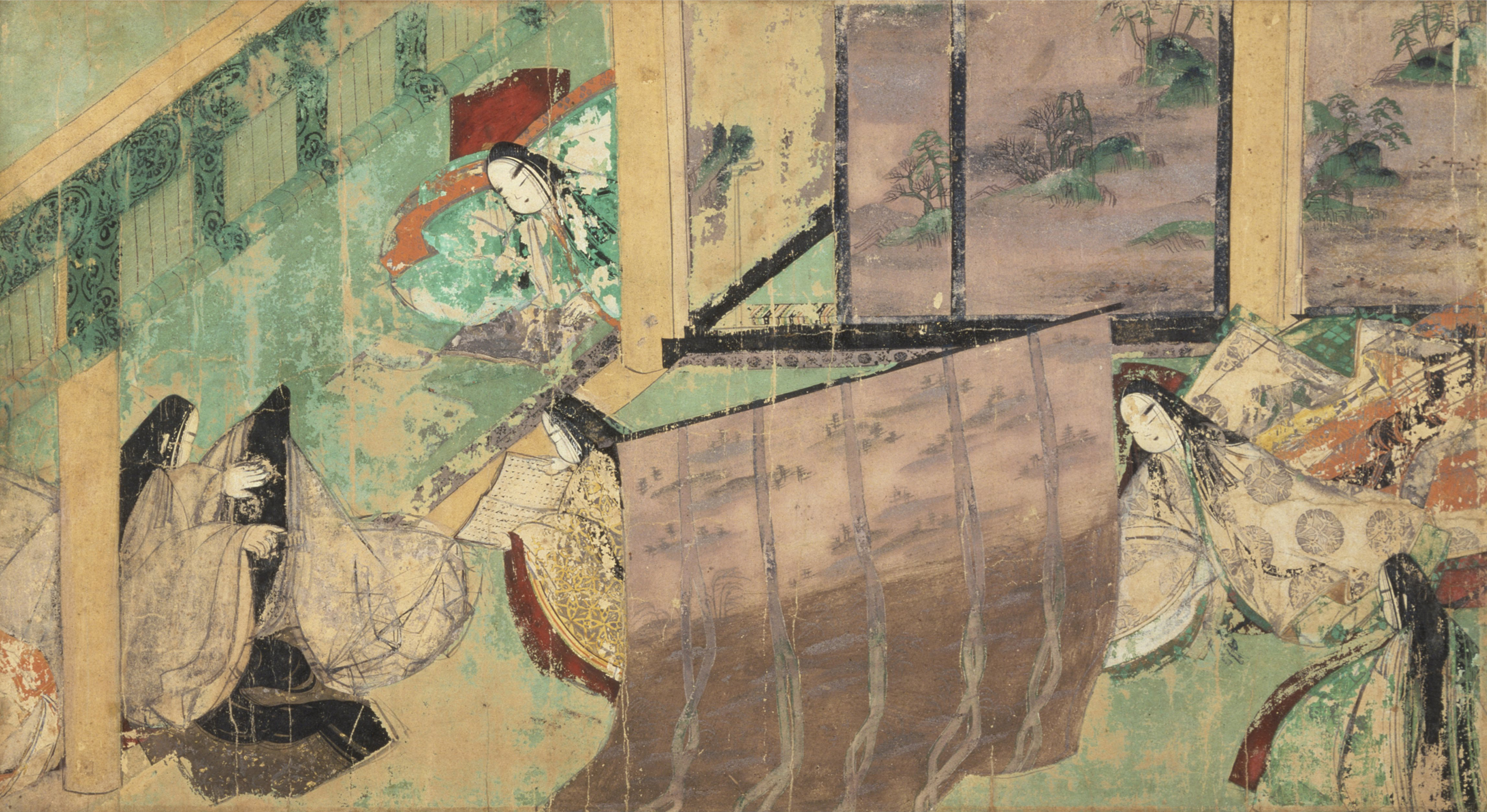 A scene (AZUMA YA: East Wing) of Illustrated scroll of Tale of Genji (written by MURASAKI SHIKIBU (11th cent.). The multi-panel curtain at the center bottom of the image is a kichō. The decorated sliding door panels at the top of the image are fusuma. The scroll was made in about ca. 1130 ACE and is in the Tokugawa Museum in Nagoya, Japan.